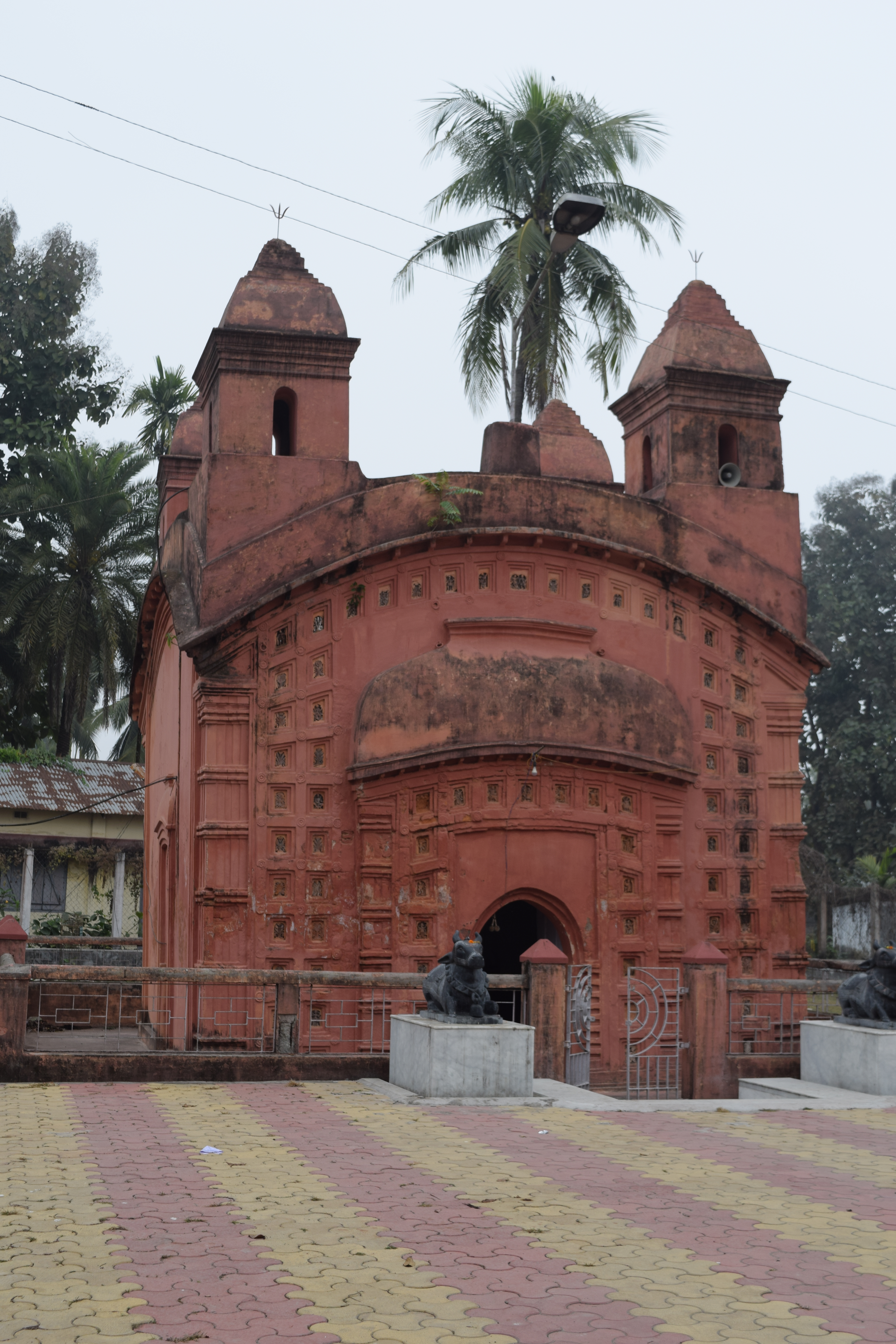 Siddhanath Siva temple at Dhauluabari under Cooch Behar district in West Bengal.